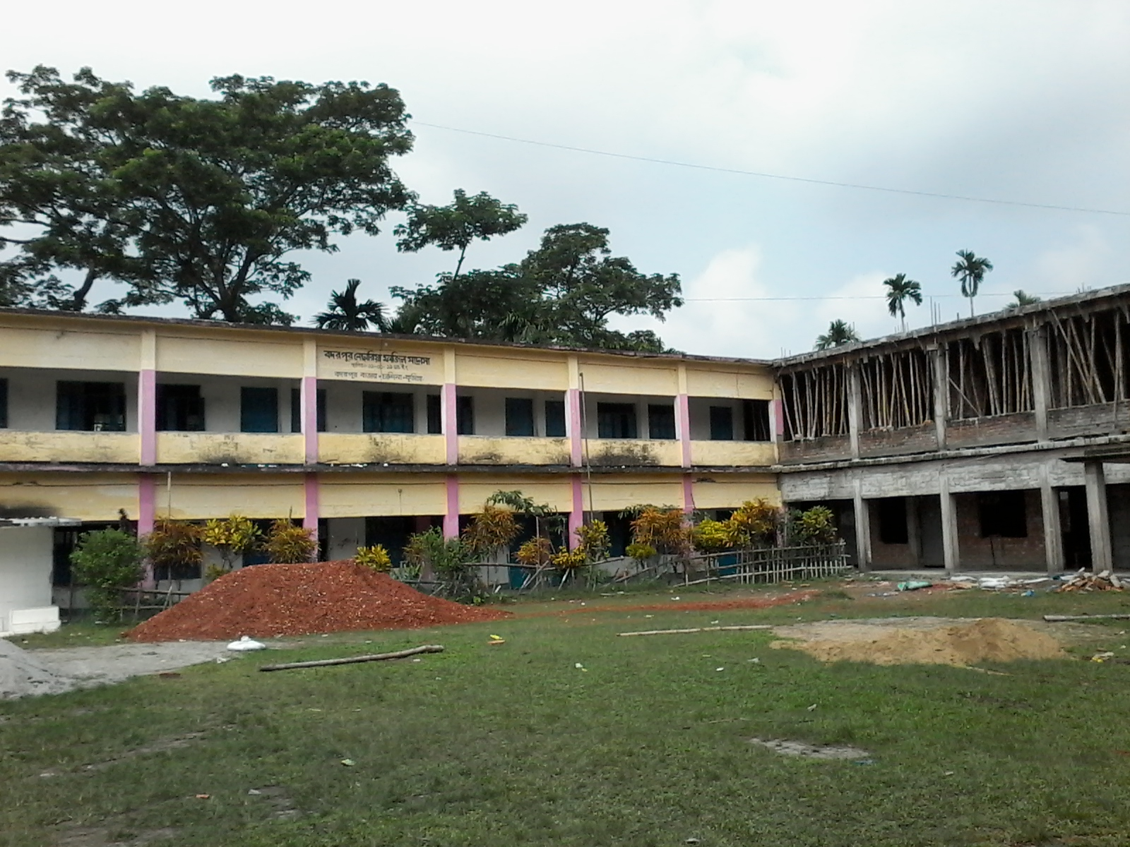 Bodorpur Nasaria Fazil Madrasha